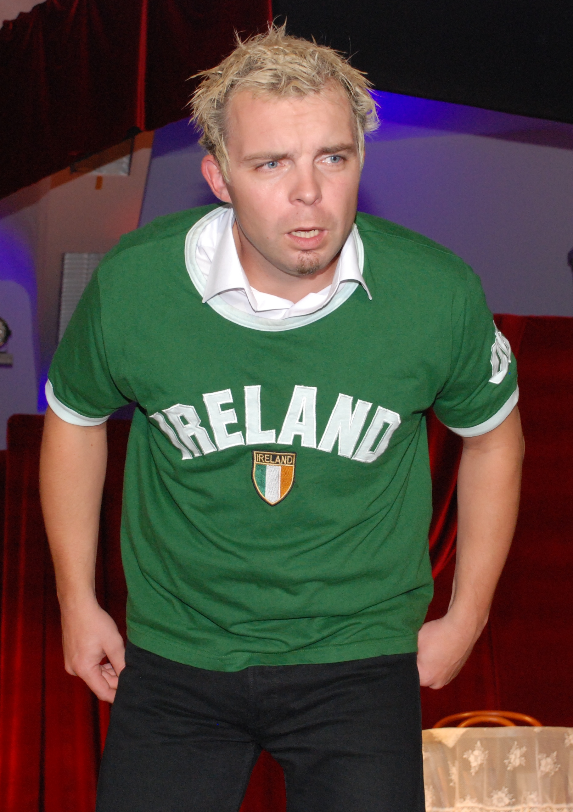 Marcin Wójcik of Kabaret Ani Mru-Mru during a performance on the fourth day of the 2007 Festival of Cabaret in Zielona Góra.